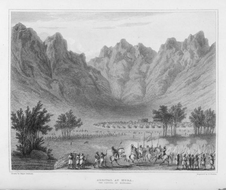 Arrival at Mora. The capital of Mandara. From Narrative of travels and discoveries in Northern and Central Africa, in the years 1822, 1823, and 1824. Vol I & II (published 1826).